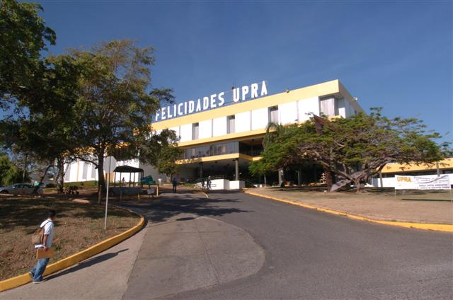 University of Puerto Rico - Arecibo main entrance.